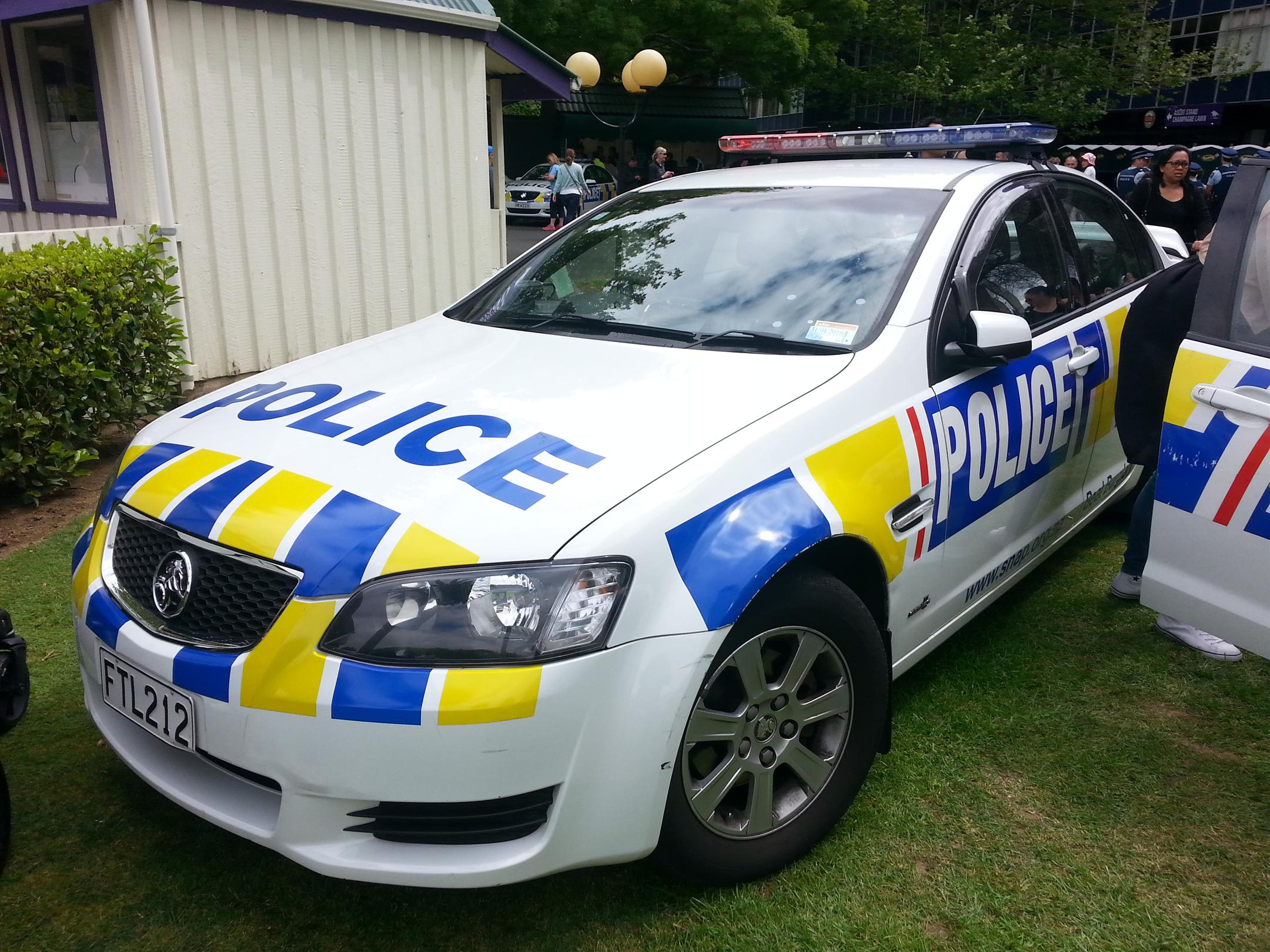 Holden Commodore VE Omega currently being used by the New Zealand Police for General Duties, Delta (Dog) Patrols and Highway Patrol. The VE Commodore is now slowly being phased out as the VF SV6/Evoke replaced it in 2013 providing more engine capacity and more modern specifications than the VE.